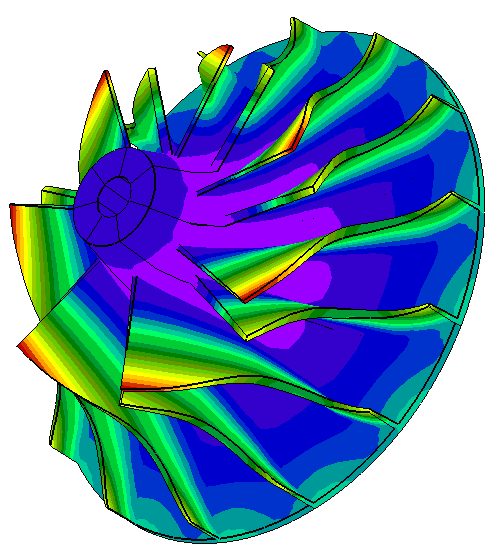 screenshot of CalculiX demo model